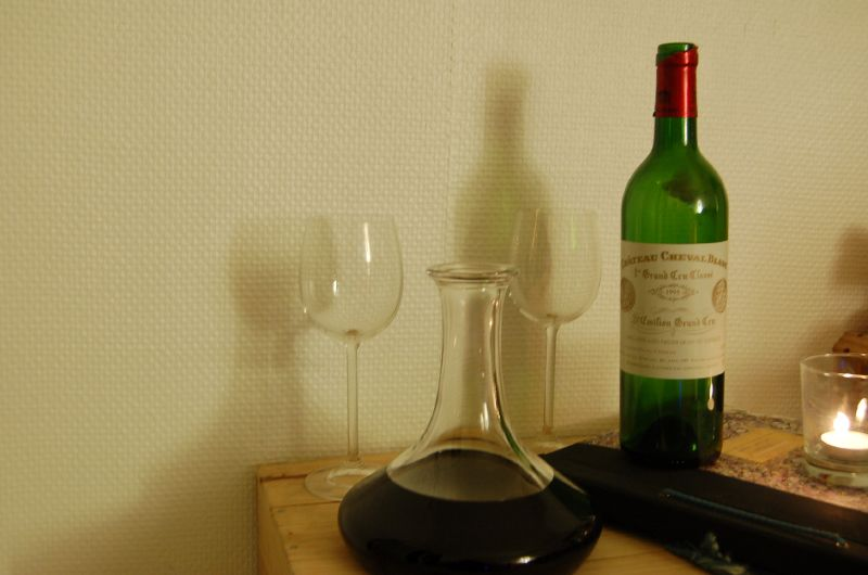 Bottle and decanter of the Bordeaux wine Cheval blanc made predominately from Cabernet Franc